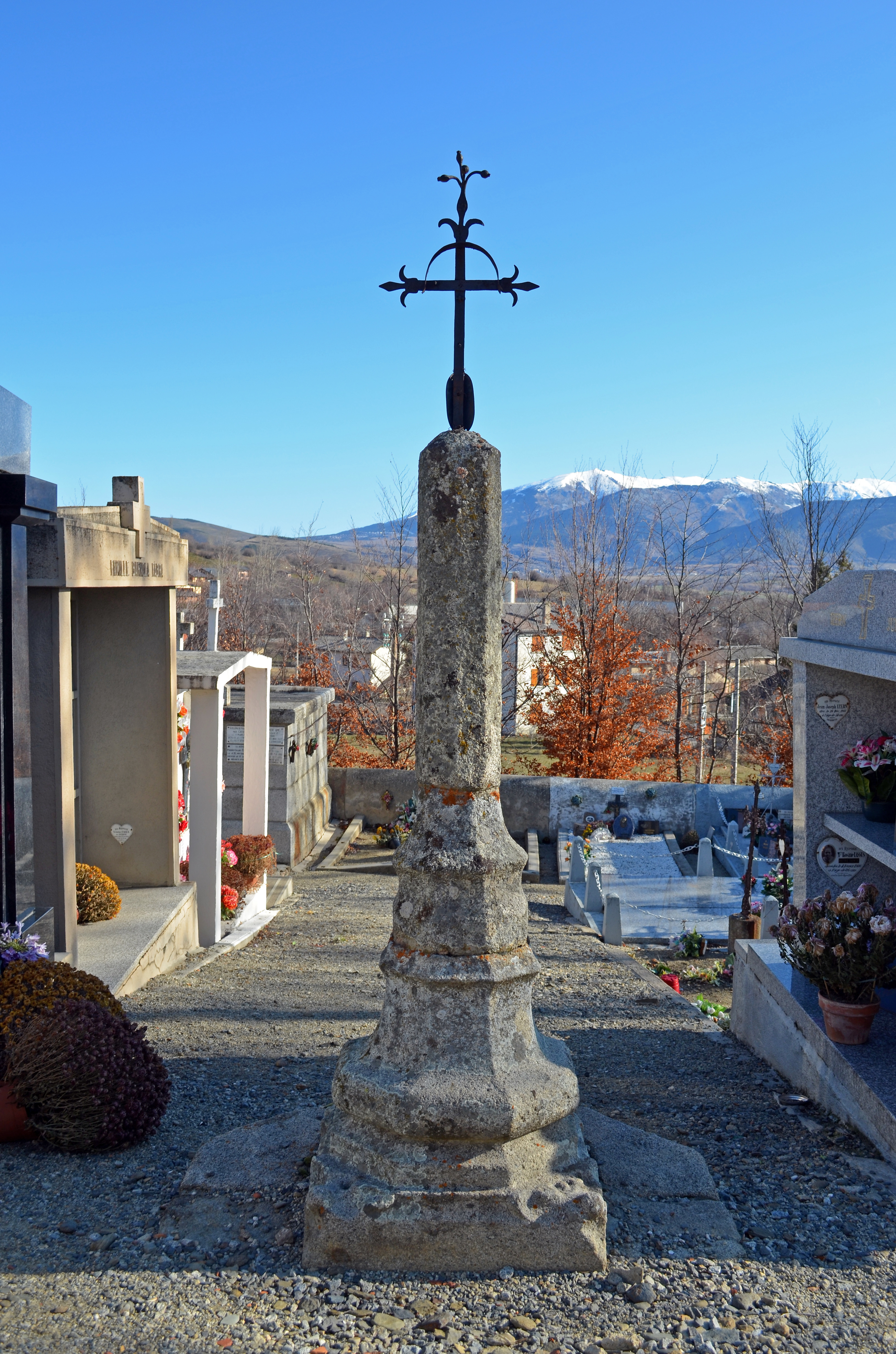 Wrought iron cross - Ur cemetery (Pyrénées-Orientales), France